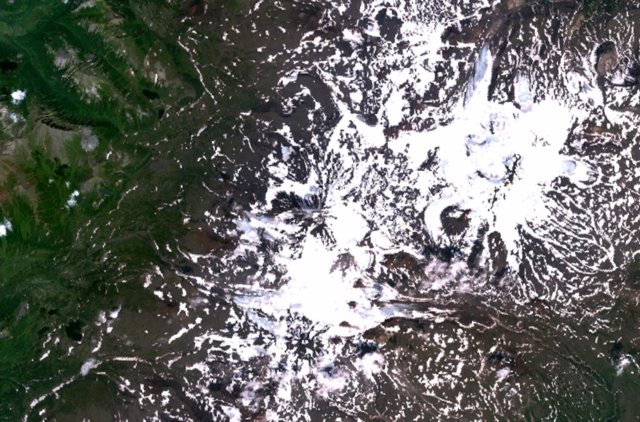 The peak at the center of this NASA Landsat image (with north to the top) is Ostry. (Kamchatka)